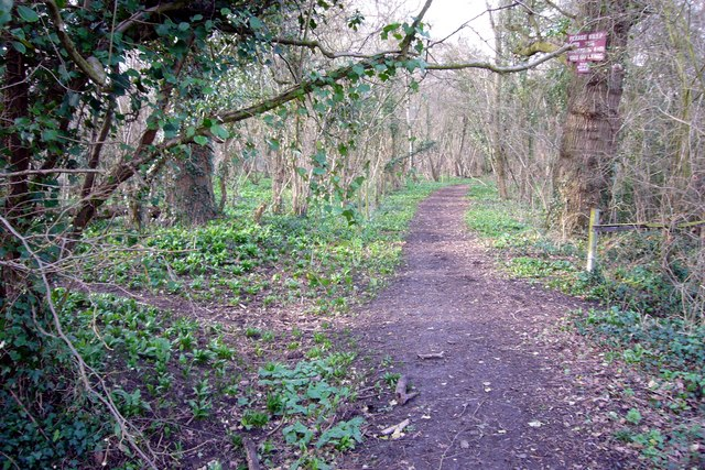 Bushy Coppice Pilgrims Trail footpath through Bushy Coppice